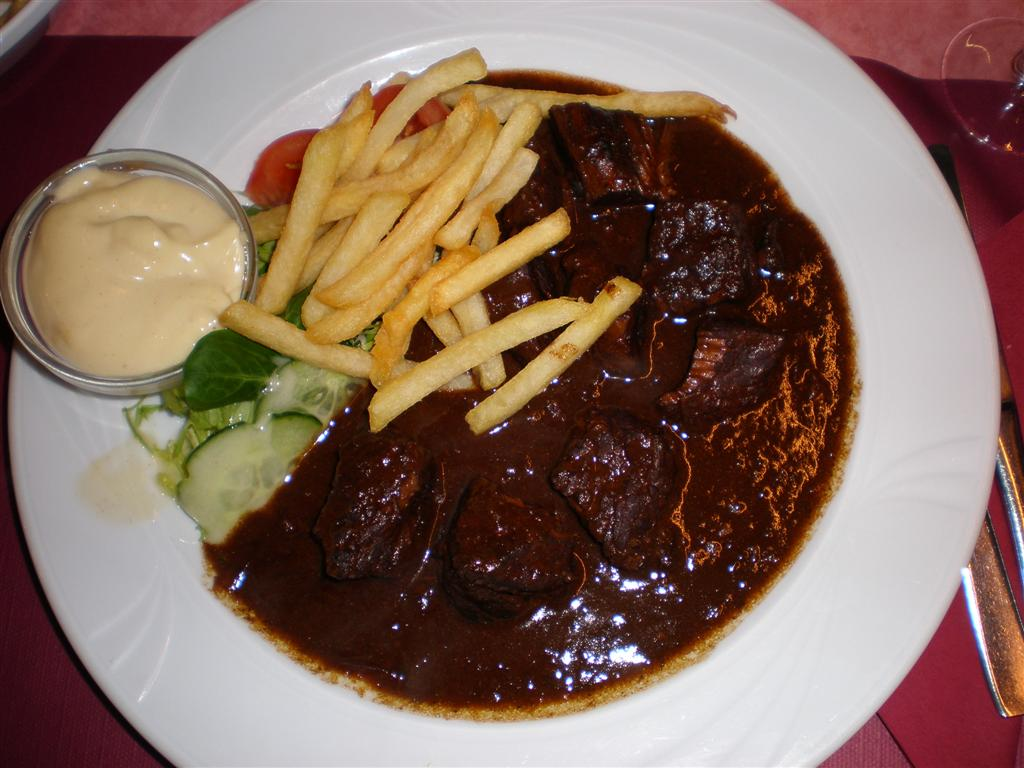 frites with carbonades